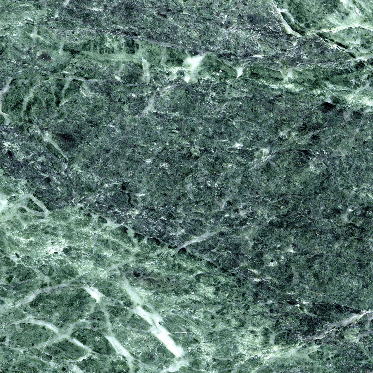 common texture of Serpentine, polished, from the Val d'Aosta, sold as Gressoney. It's the same rock that is seen behind the speakers at the United Nations building in New York.